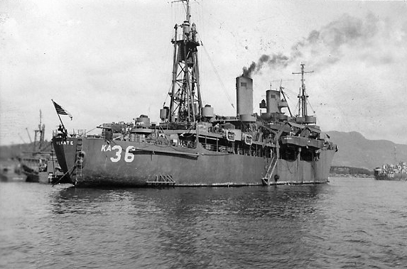 The U.S. Navy attack transport USS Renate (AKA-36) anchored at Sasebo, Japan, September-October 1945.